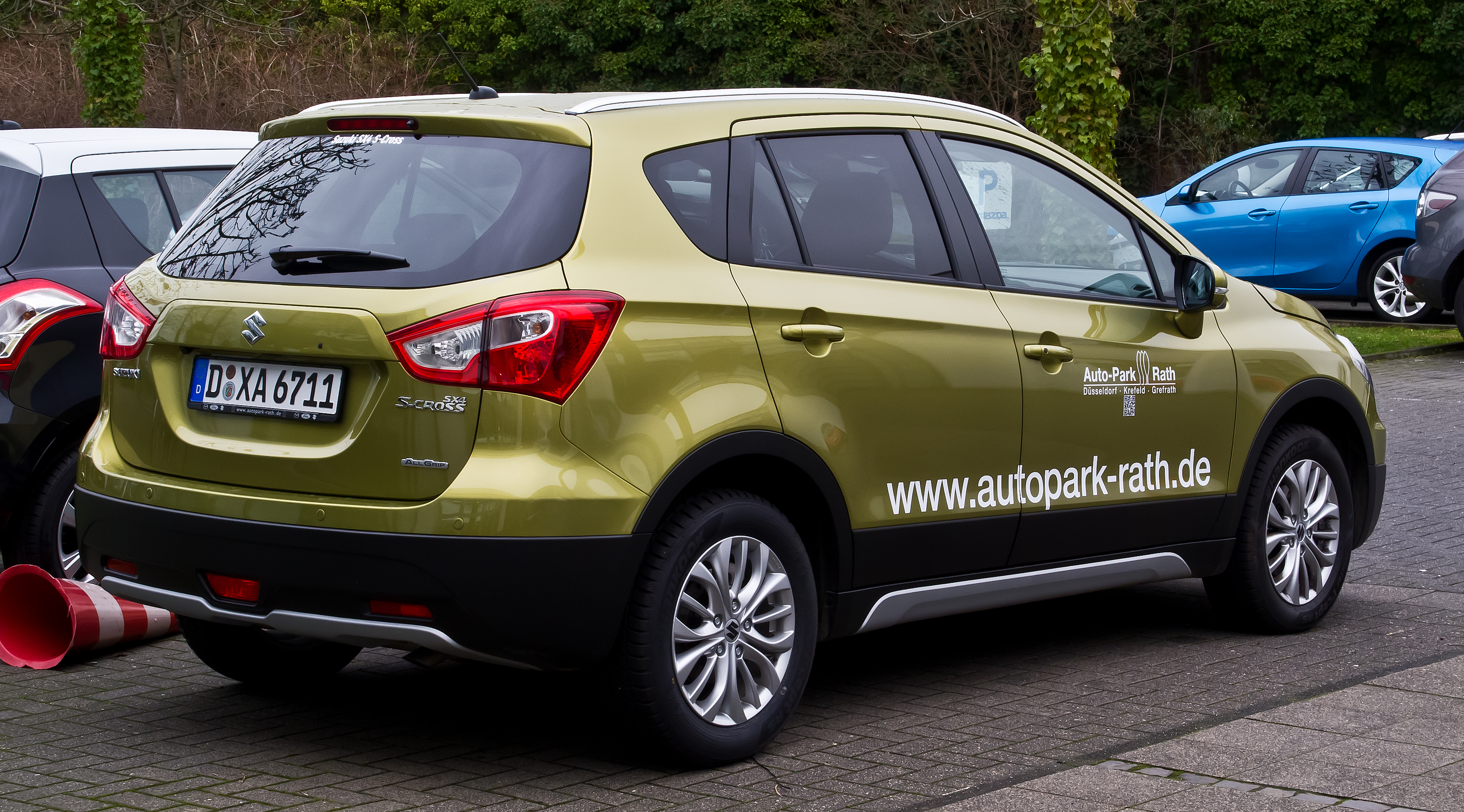 Suzuki SX-4 S-Cross 1.6 DDiS ALLGRIP Comfort+ (II)